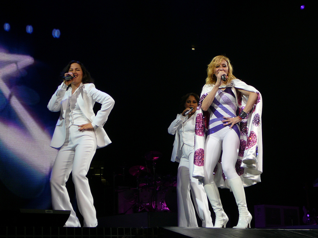 Photo taken at the concert